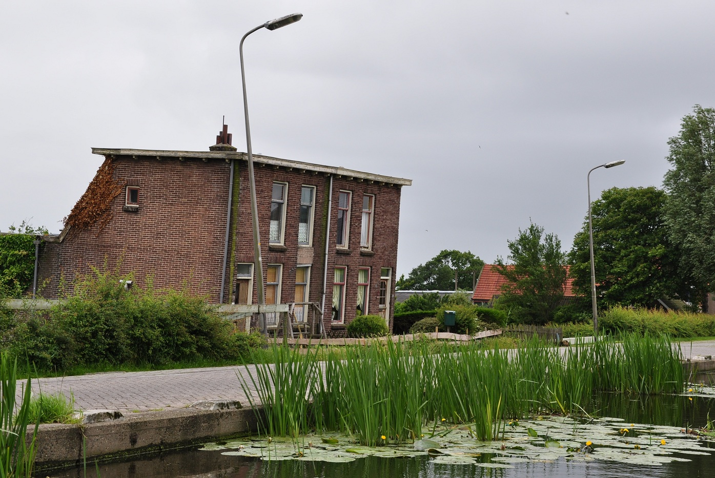 Subsided houses on a dike, Stompwijk, Netherlands